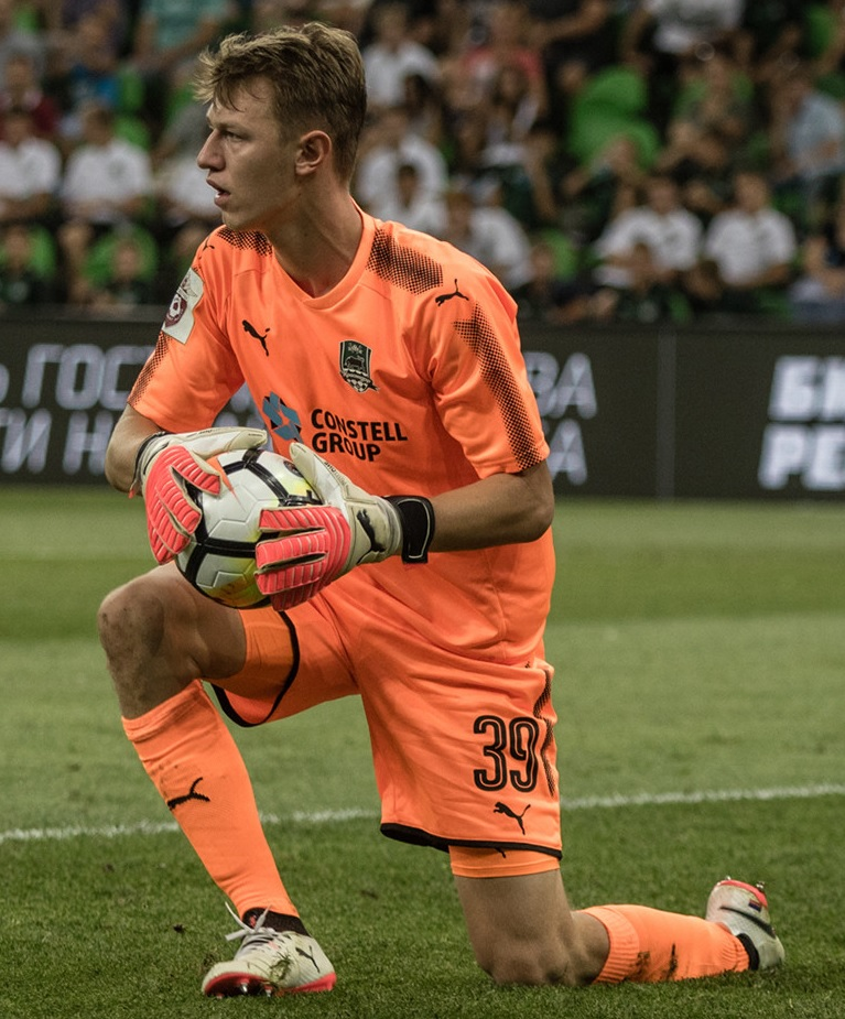 Matvei Safonov with FC Krasnodar in a game against FC Amkar Perm.